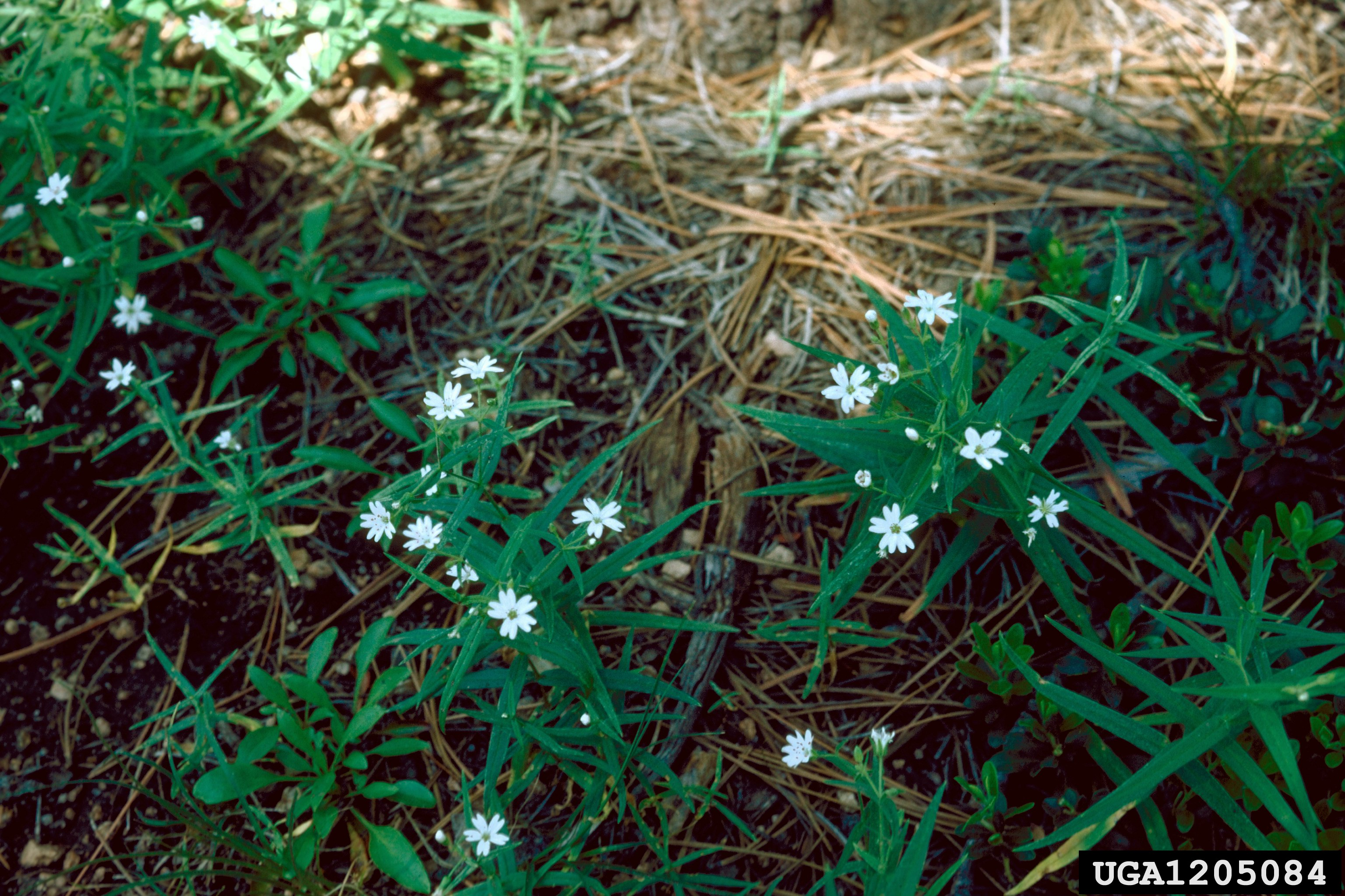 Pseudostellaria jamesiana, several plants in typical forested habitat